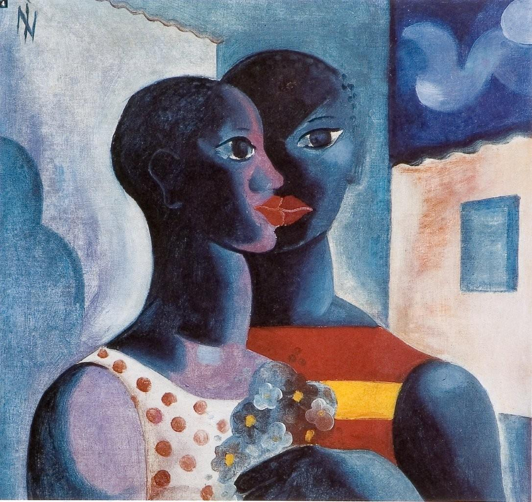 Ismael Nery - "Namorados" - óleo sobre tela - 58.5 x 58.5 cm - circa 1927